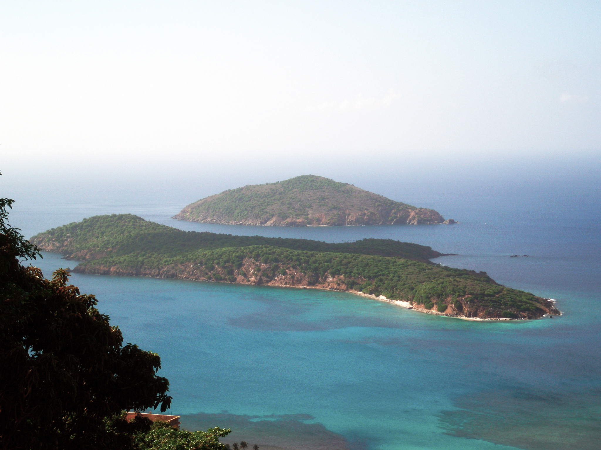 A view of Inner Brass island and Outer Brass island in St. Thomas, USVI.